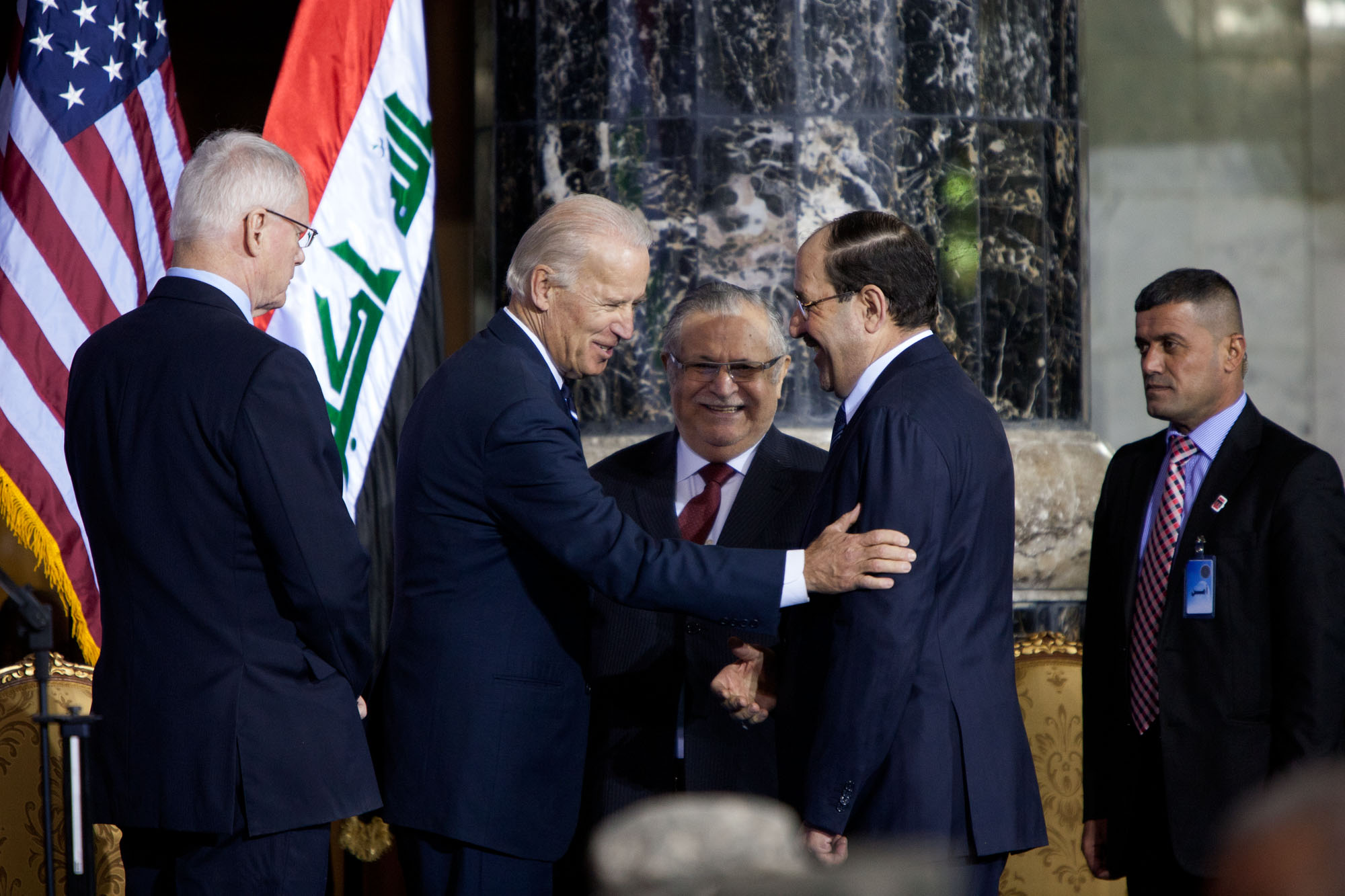 Meeting between Vice President Joe Biden of the United States of America and President Jalal Talabani and Prime Minister Nuri Al-Maliki of the Republic of Iraq